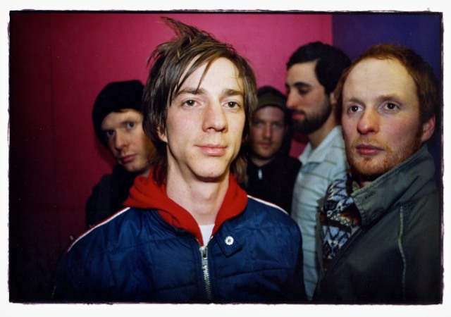 Hood, promotional photo for Plan B, 2006